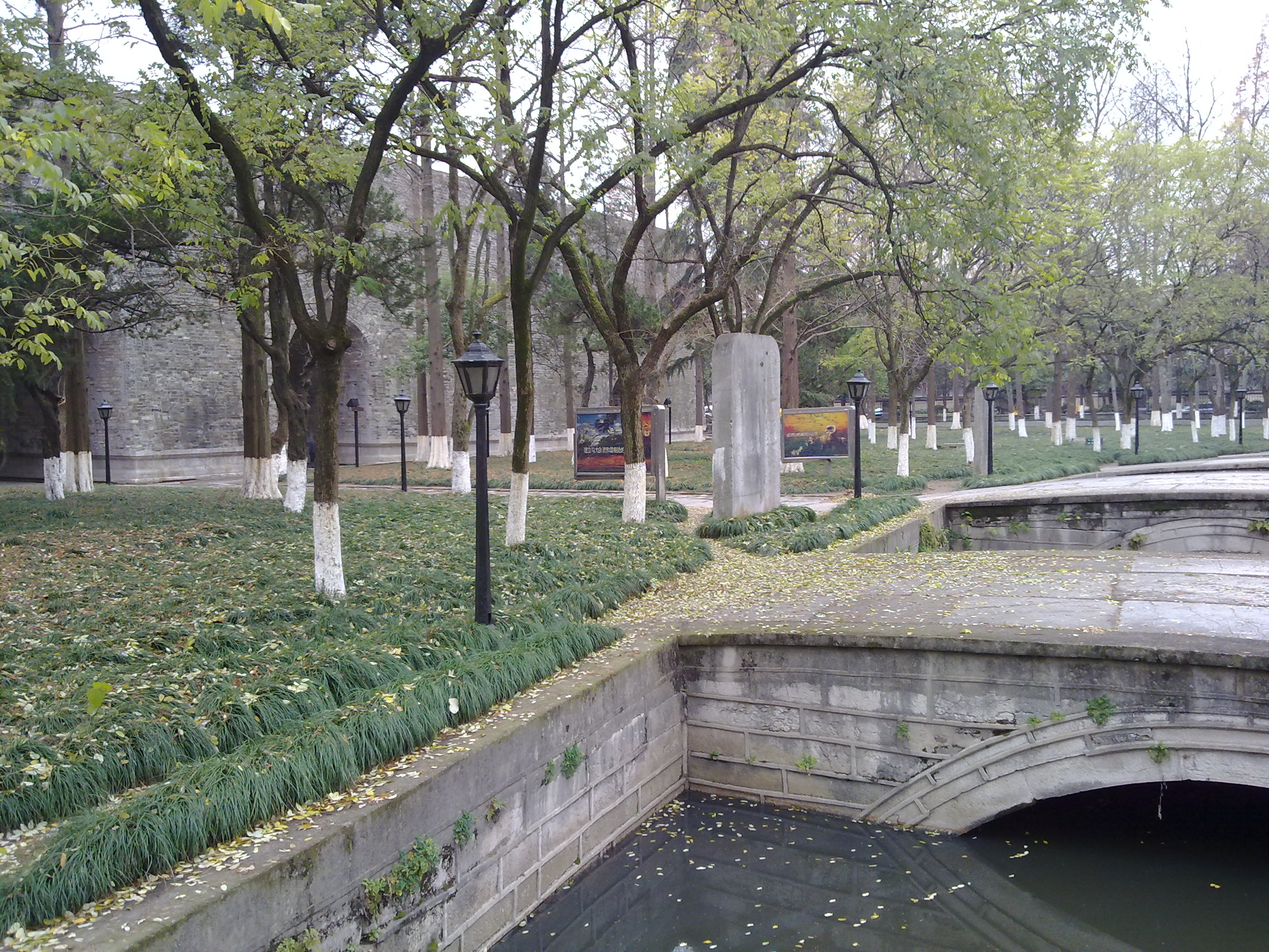 Inner Gold Water Bridge (内金水桥) of Nanjing Ming Palace